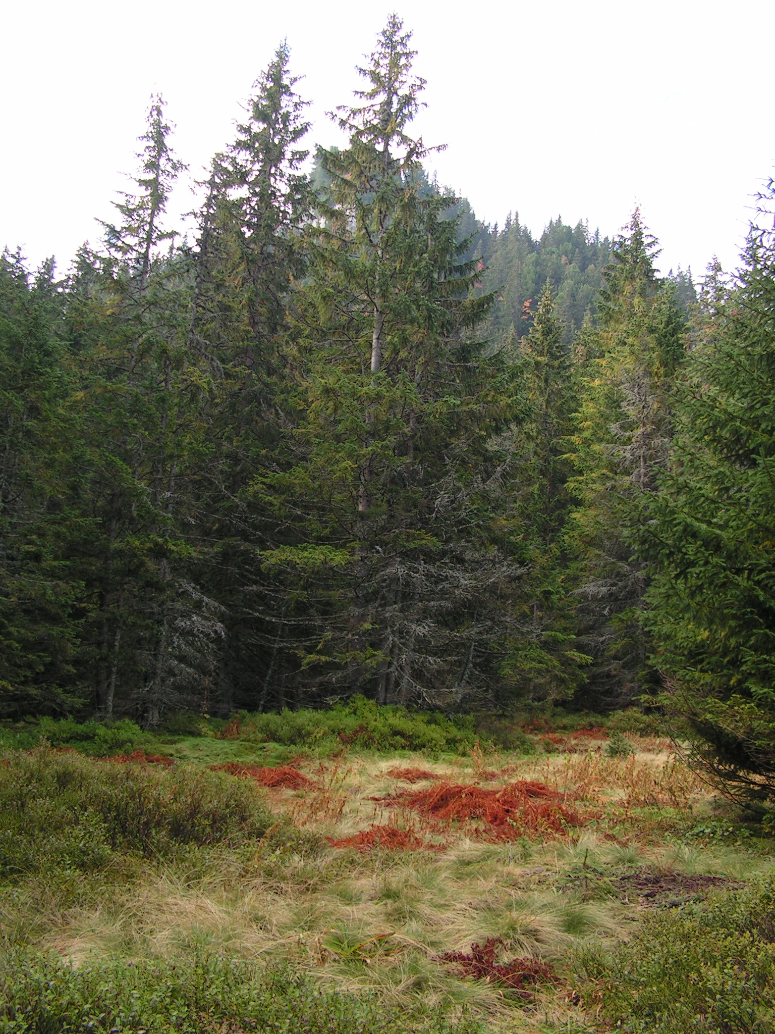 Burdel glade in Kolová valley.